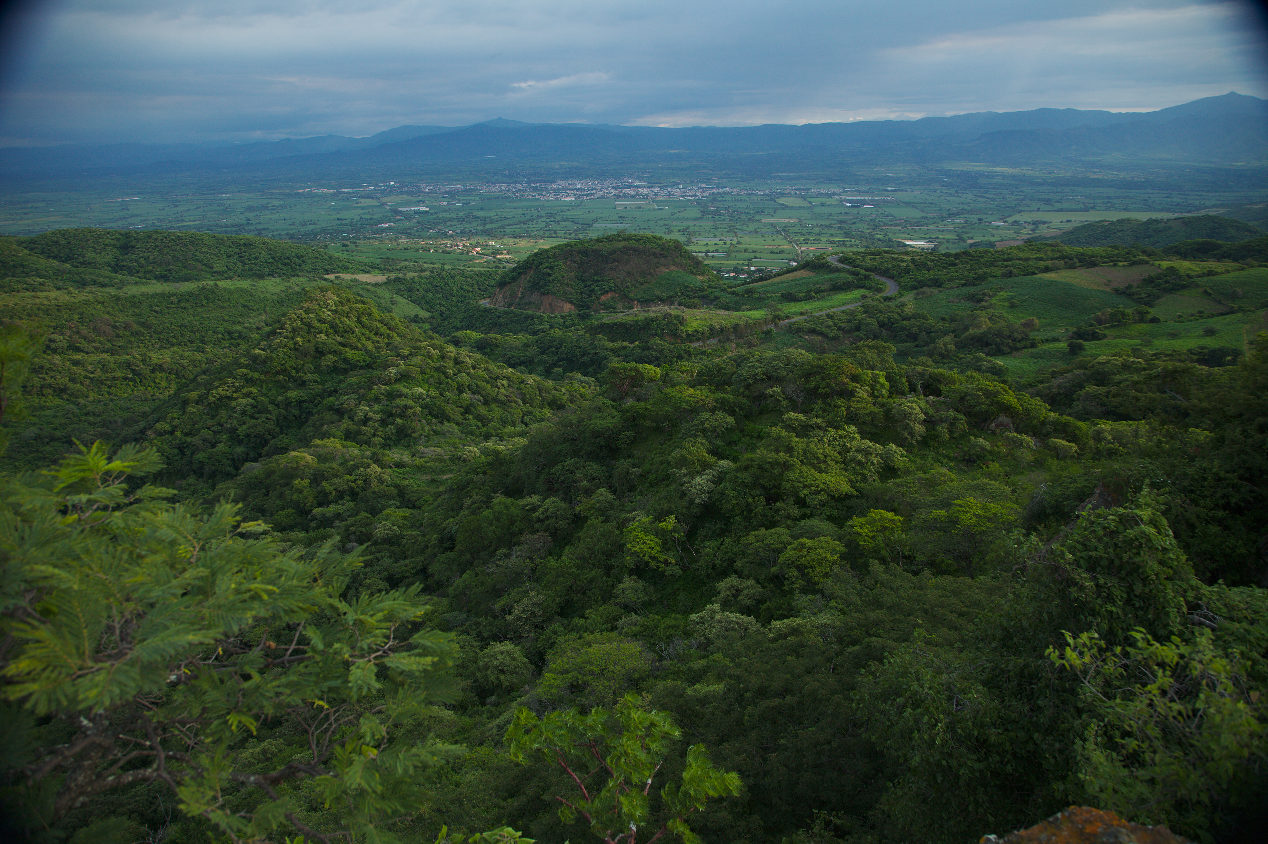 View of Ameca from the view point